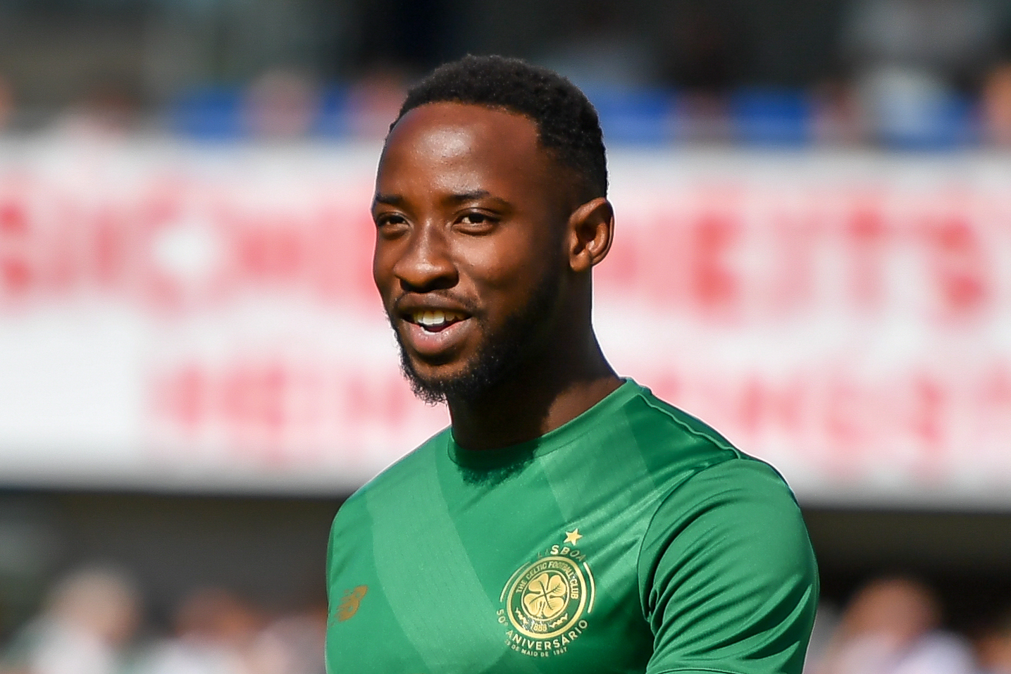 1/7/2017, Amstetten, Austria, sports, soccer, Tipico Fussball Bundesliga - preparation match SK Rapid Wien vs Celtic Glasgow. Image shows Moussa Dembele (Celtic FC).